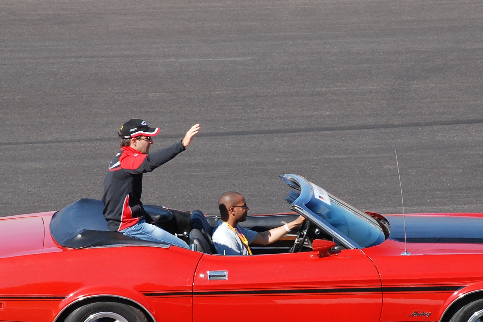 Timo Glock, United States Grand Prix, Austin 2012